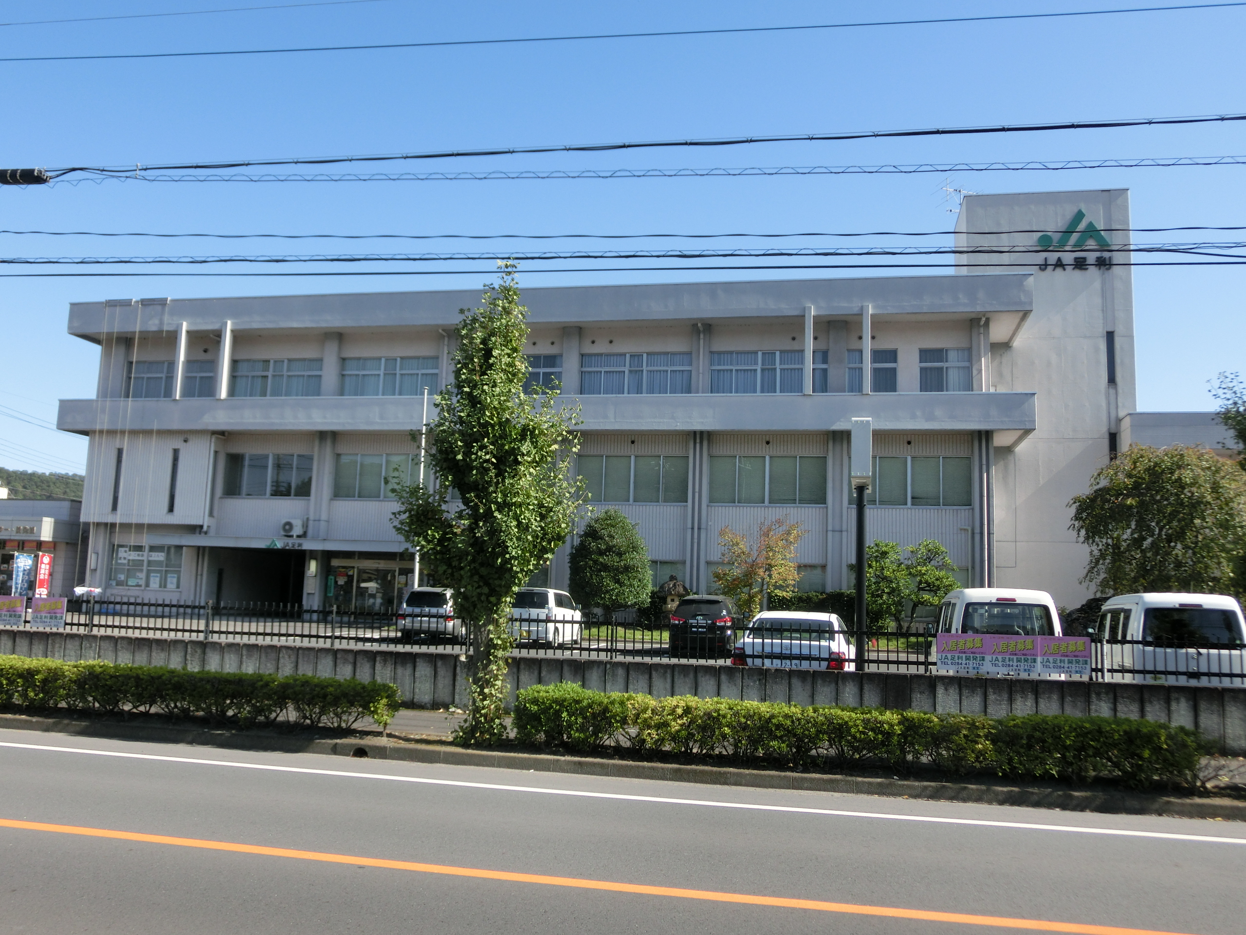 JA Ashikaga Headquarters